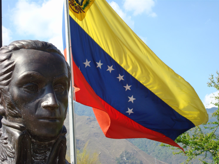 Simon Bolivar statue and the flag of Venezuela.